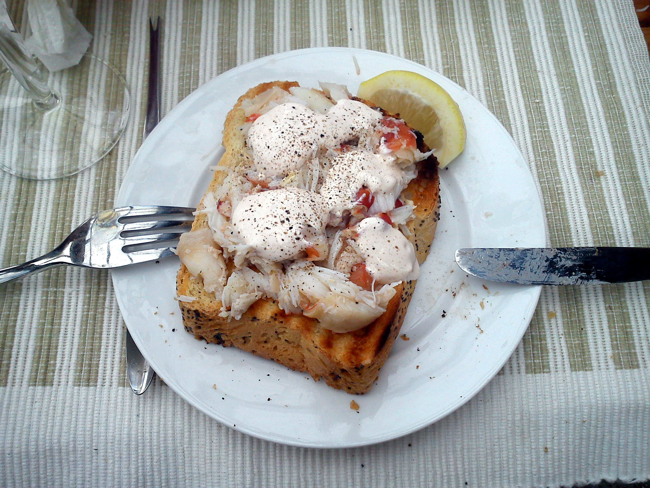 Ristet brød med krabbekløer (Toasted bread with crab claws)